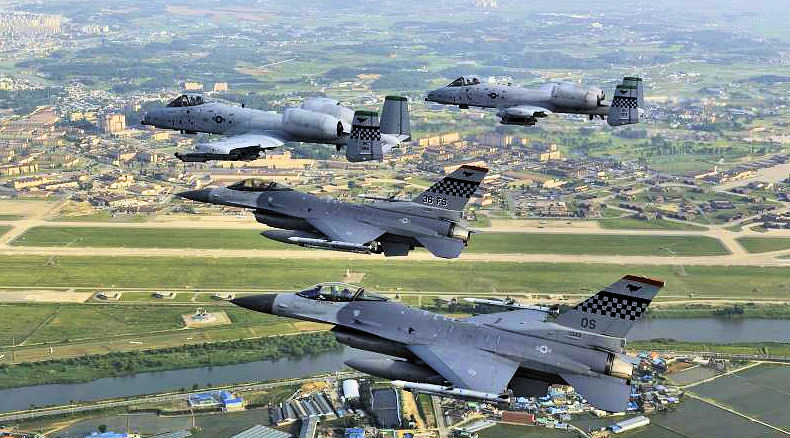 USAF F-16C block 40s #89-2043 & #88-0536 from the 36th FS fly alongside two A-10 Thunderbolt IIs over the Republic of Korea on June 11th, 2009. [USAF photo by Lt. Col. Judd Fancher]